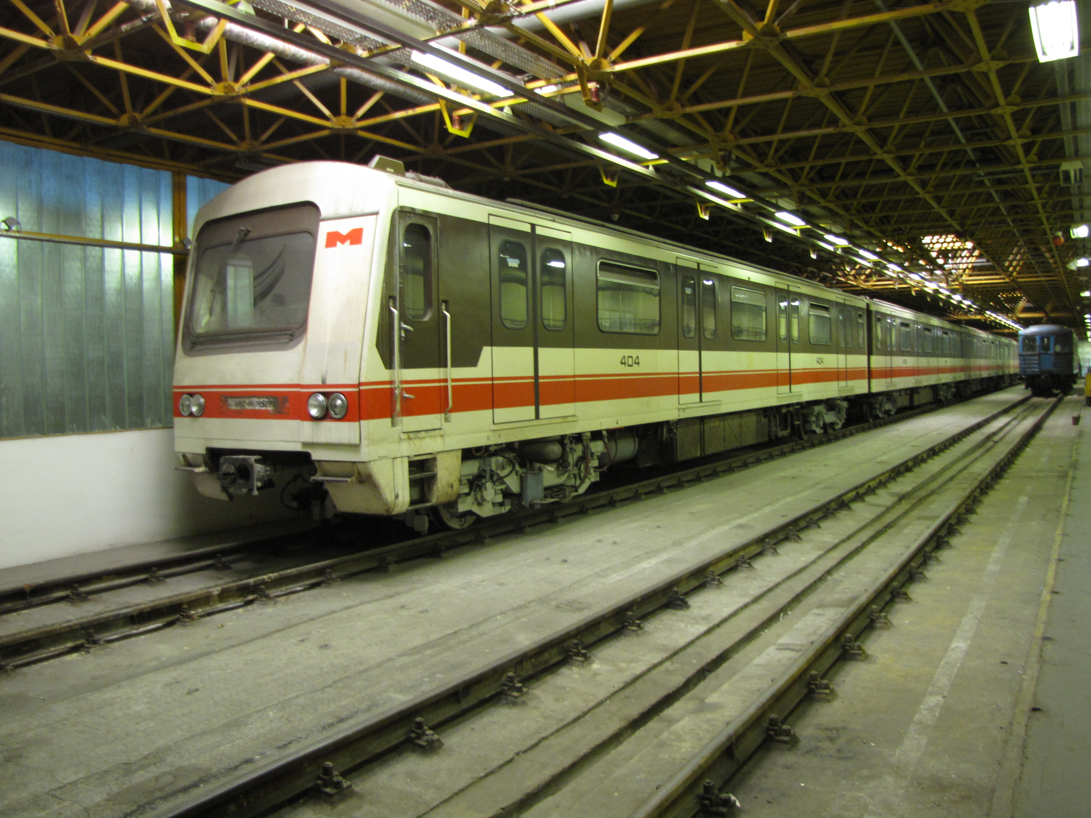 Ganz-Hunslet G2, Budapest metro